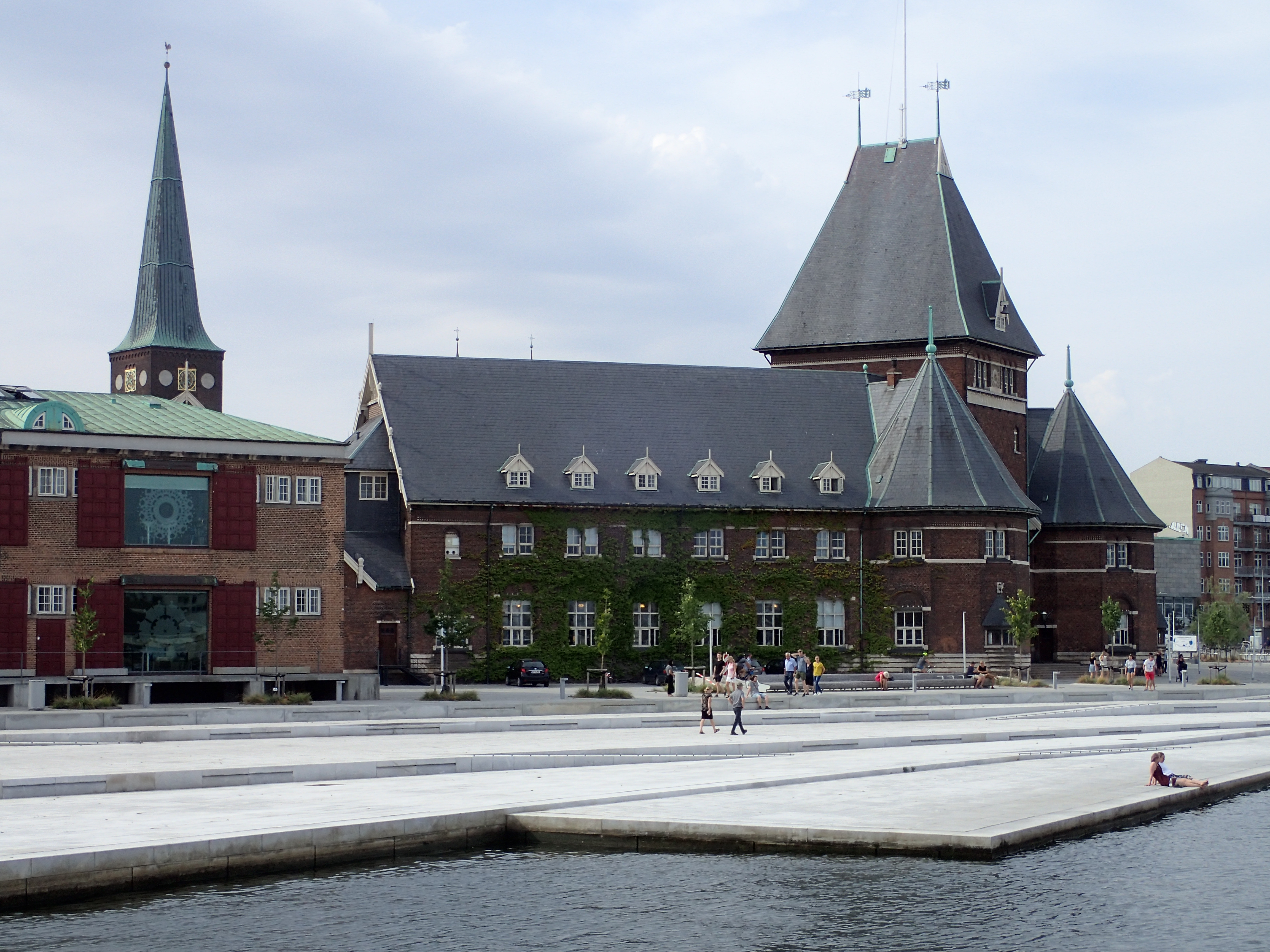 The old Custom House at the new harbourfront, summer 2018.